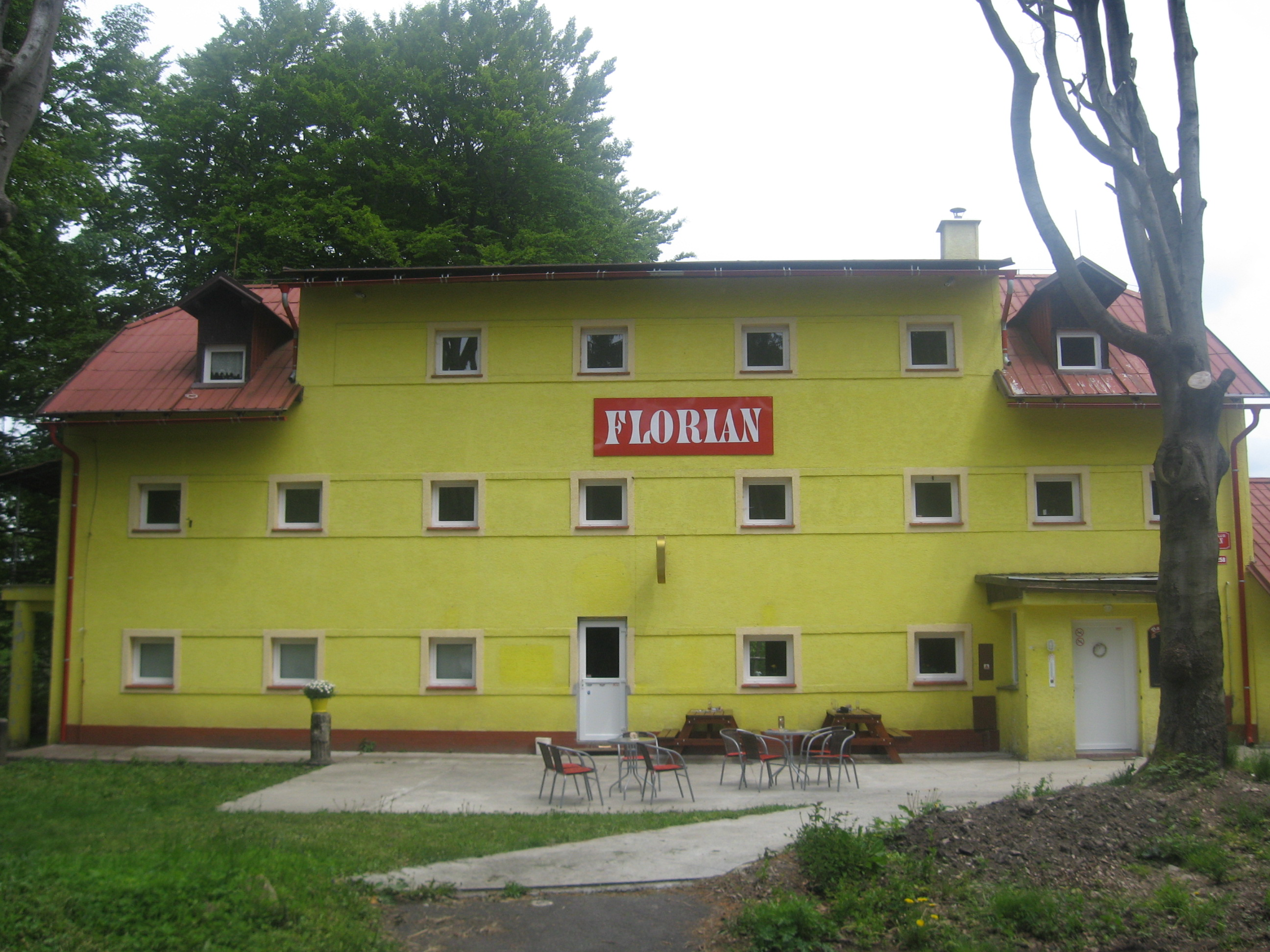 Pub Florián in Adolfov